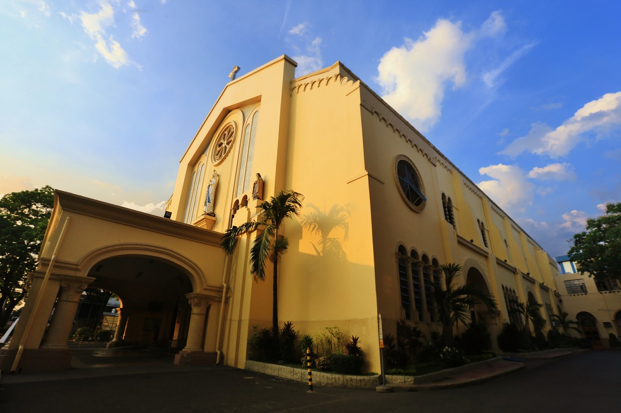 Right Side of the National Shrine of Our Lady of Lourdes